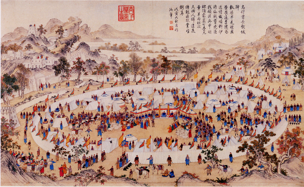 The surrender of the leader Huo Jisi of Us (Us-Turfan in Uyghur) in 1758